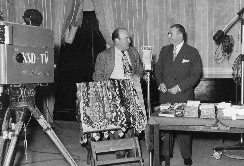 Photo of a 1948 television broadcast on KSD-TV, St. Louis. The station's call letters are now KSDK.